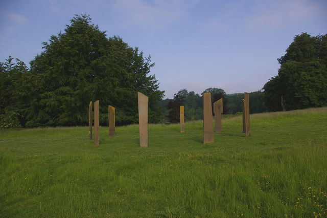 The Millennium Stones, Gatton Park. Each stone is inscribed with a quotation, dating from each 200 years since 1 AD. For a fuller description, see this description sign.